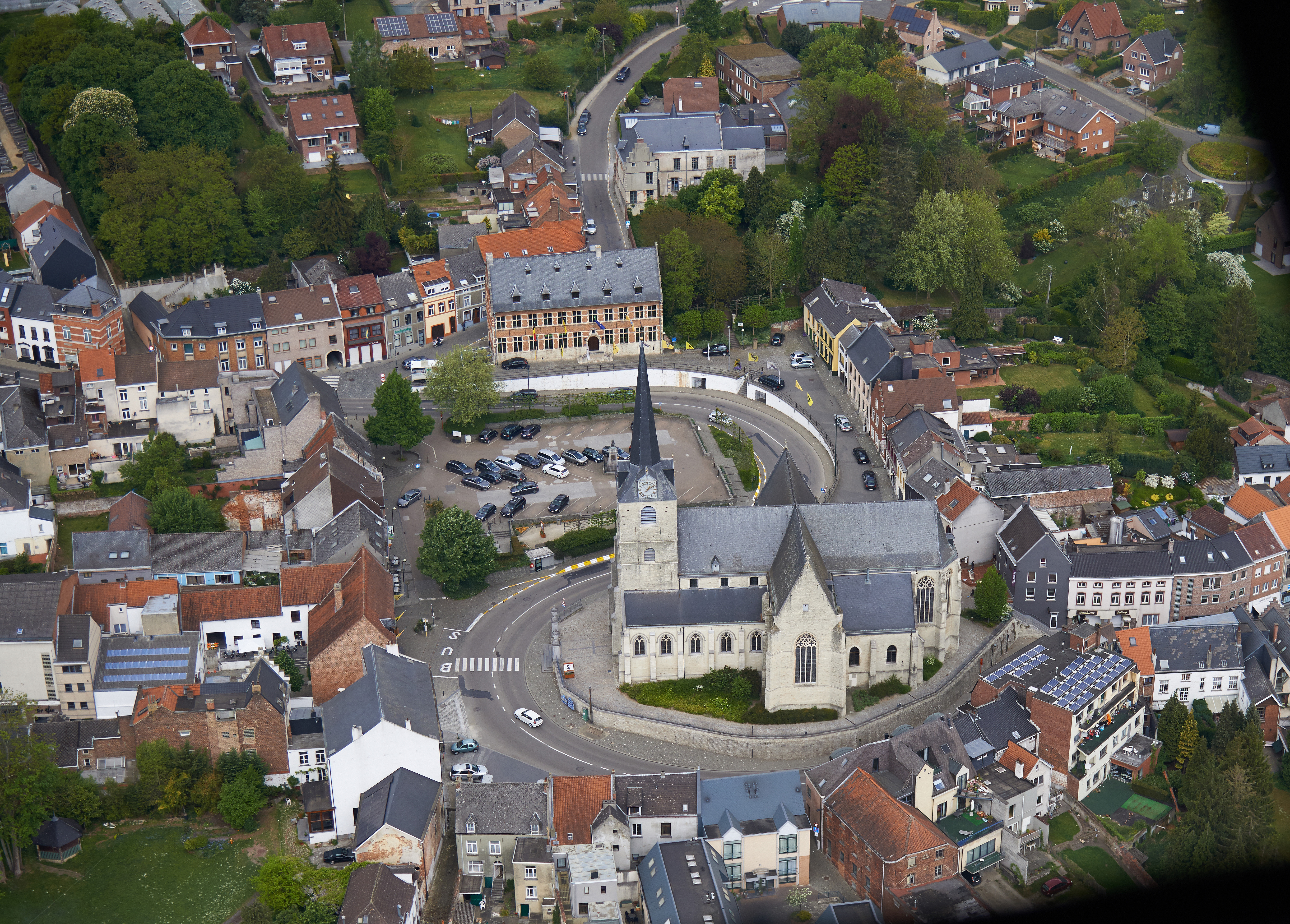 Aerial photograph of Overijse, Belgium with the Sint-Martinus church